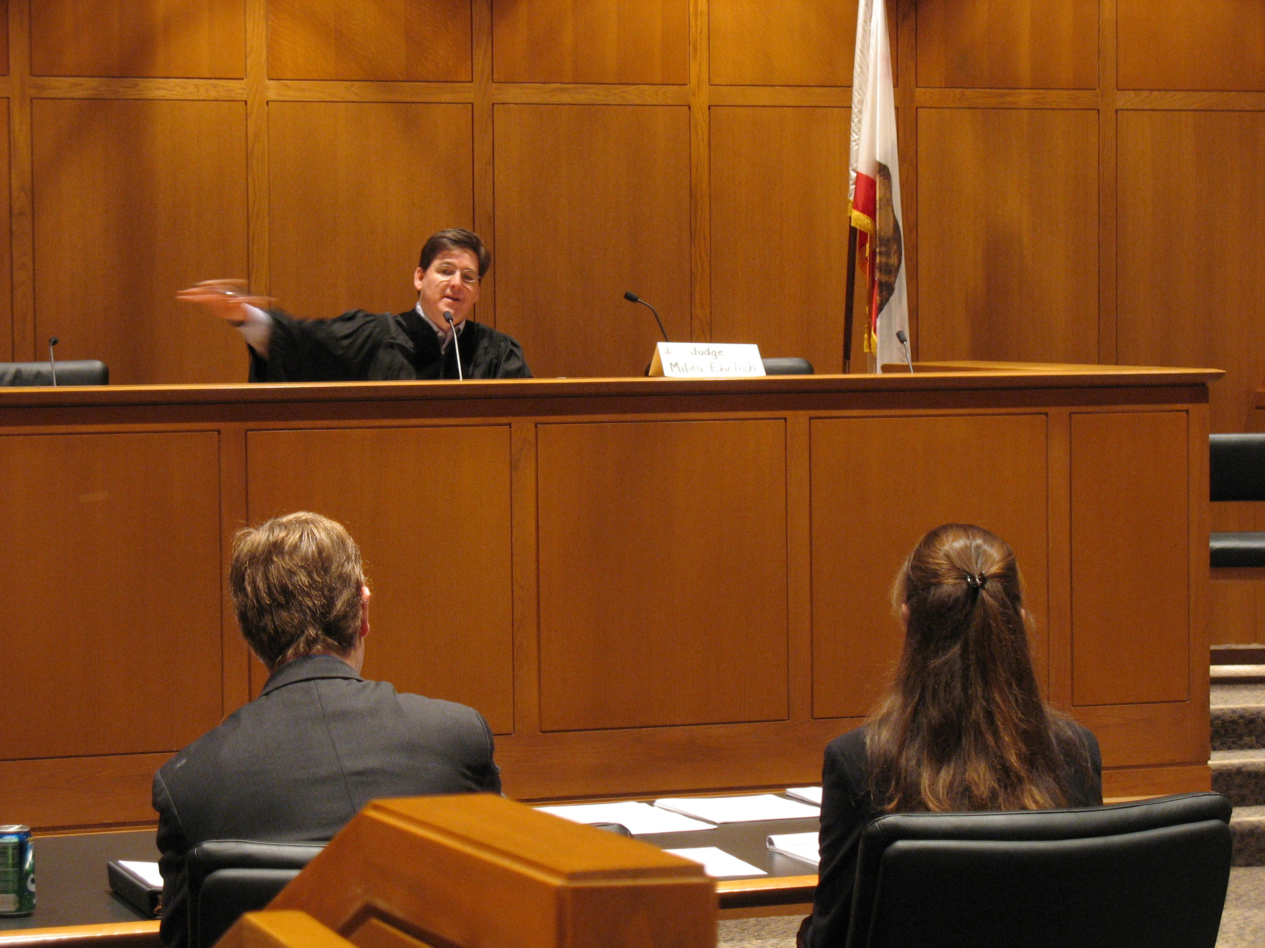 American judge Miles Ehrlich talking to a lawyer.